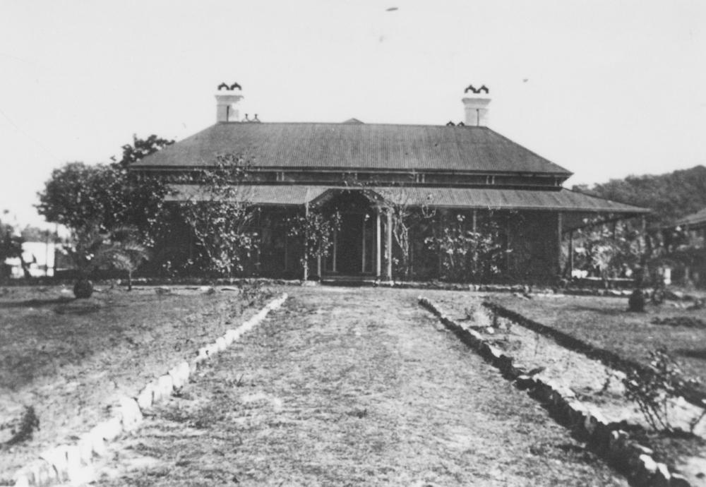 Pedestrian walk to "Granite House" in St John's Wood, Ashgrove, Brisbane. The garden plot on either side has rose bushes within a circular carraige drive. There are climbing plants on the verandah posts. The house is constructed from local granite.